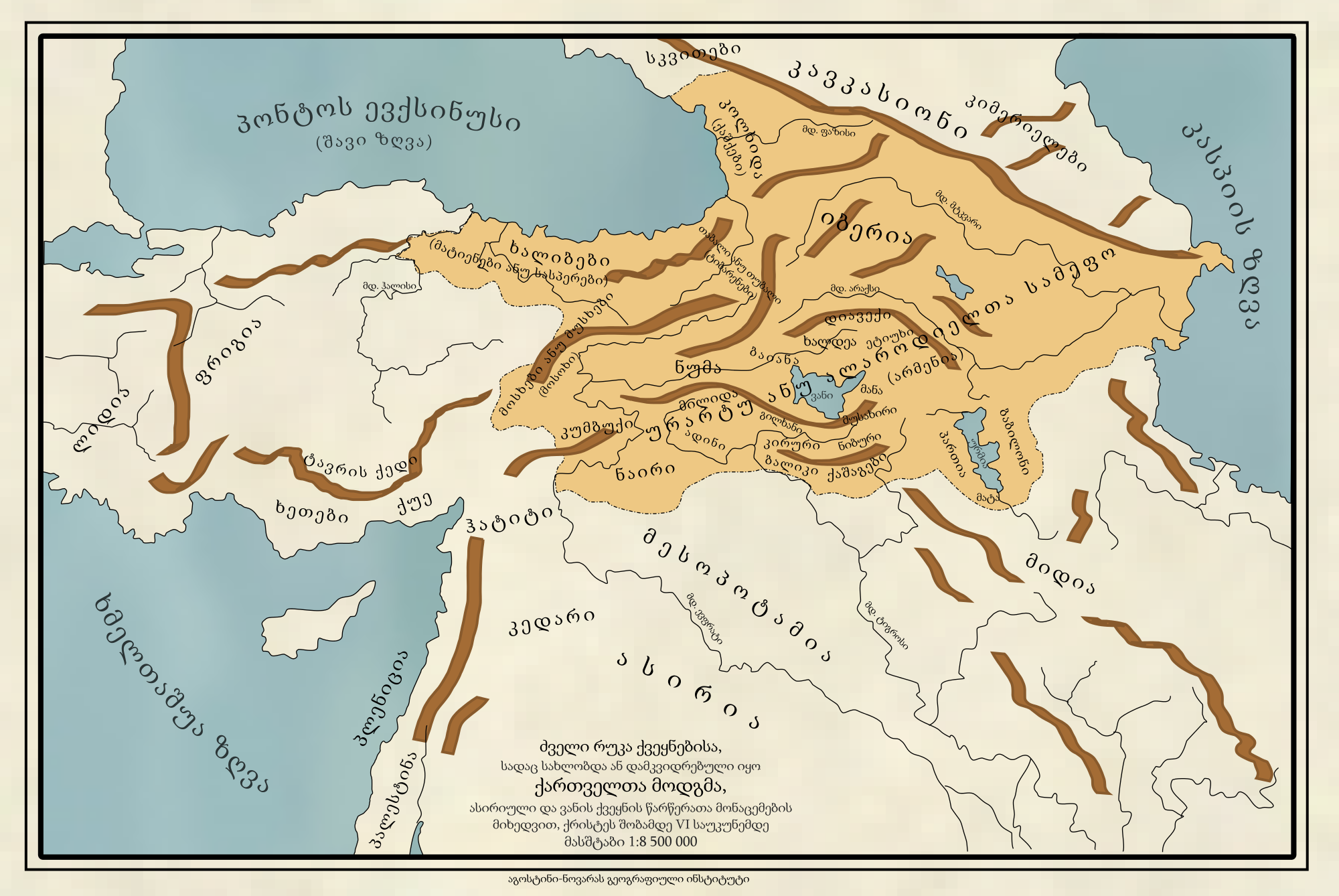 Map of the countries where Kartvelian peoples were settled or living untill the VI century BC. According to the data from Assyrian and Van Country scripts. Scale 1:8 500 000 Credits: Geographic Institute Agustín Codazzi / Geographic Institute Of Novara